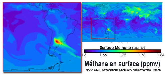 computer models showing the amount of methane found at the Earth's surface (zoom over south America